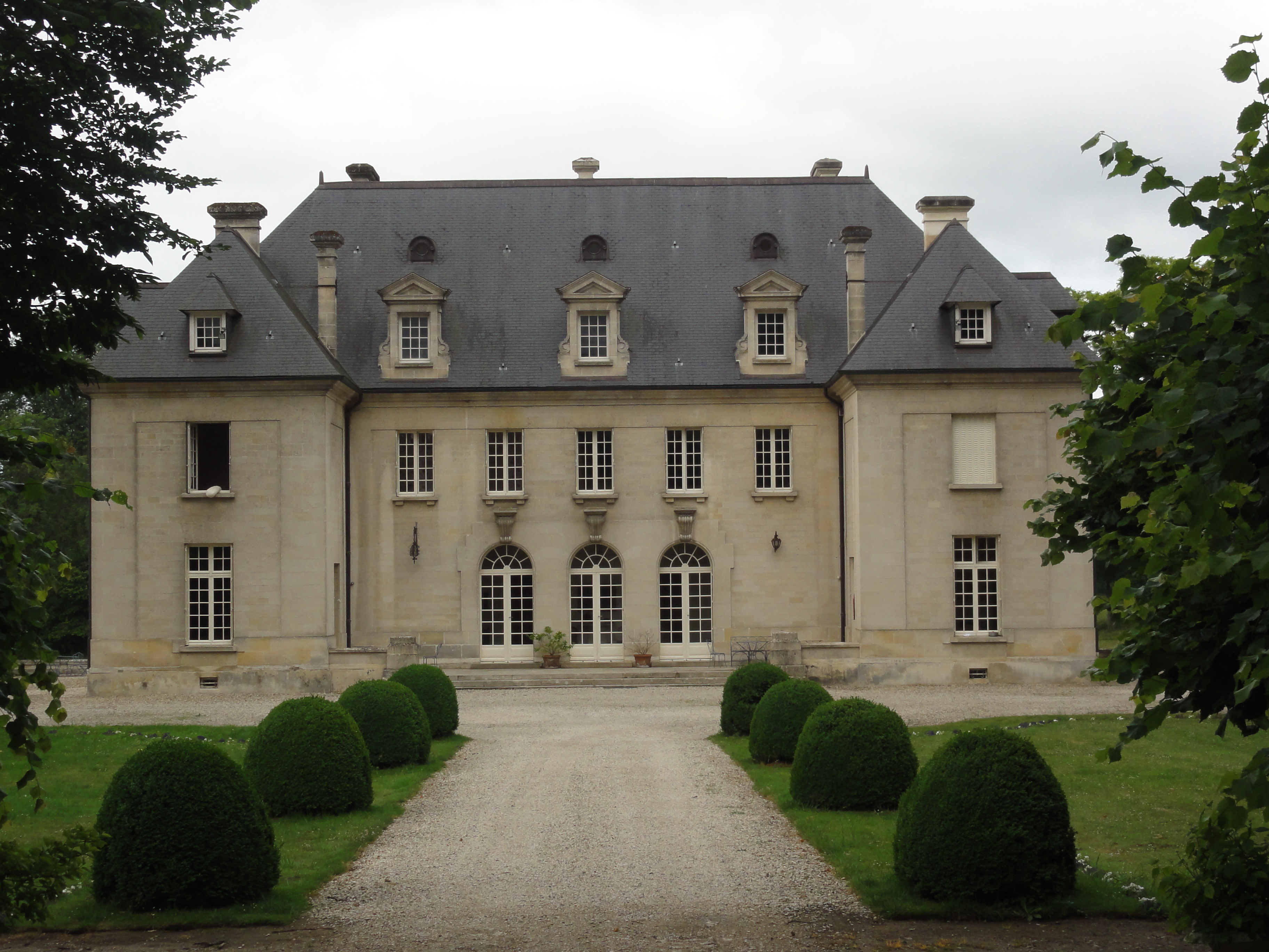 Quincy-Basse (Aisne) château